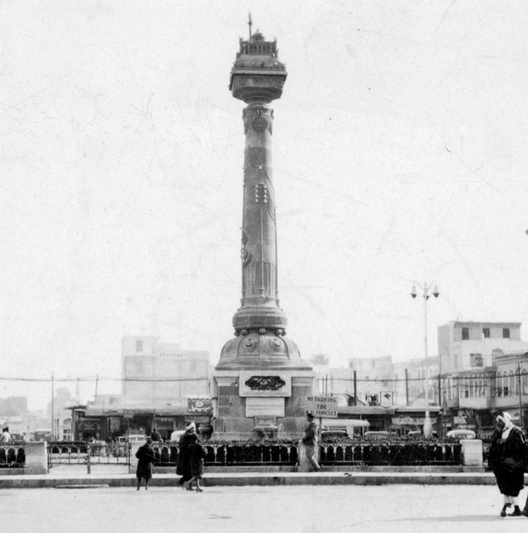 089 1942 - Main square in centre of Damascus, Syria